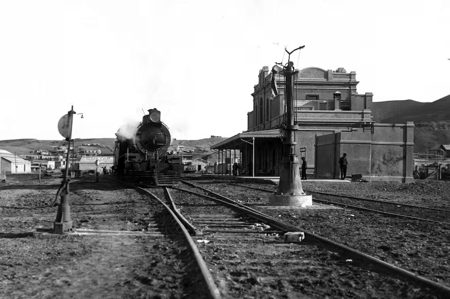 Comodoro Rivadavia train station, part of Ferrocarril Comodoro Rivadavia-Colonia Sarmiento.